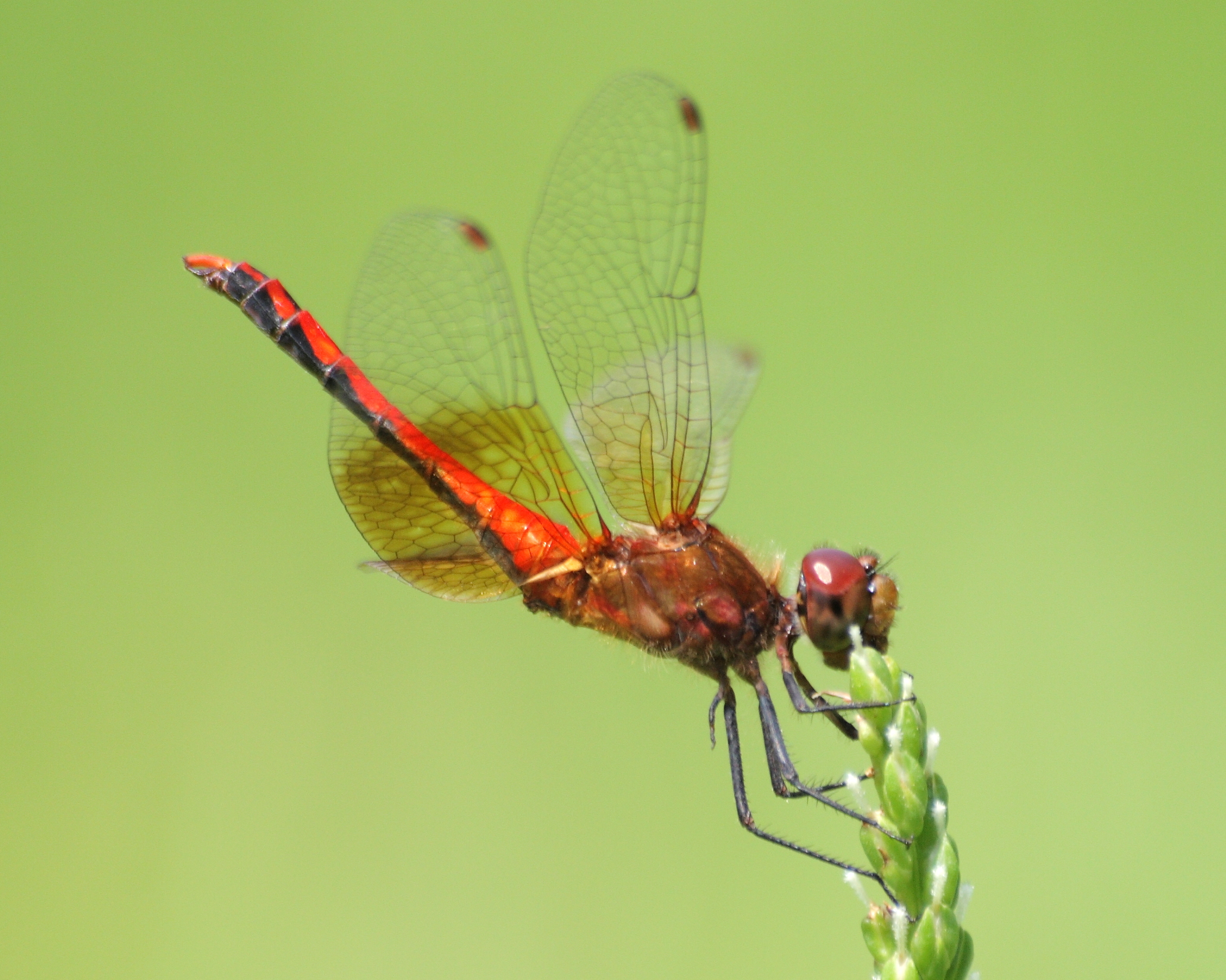 Band-winged Meadowhawk (Sympetrum semicinctum) in central Connecticut